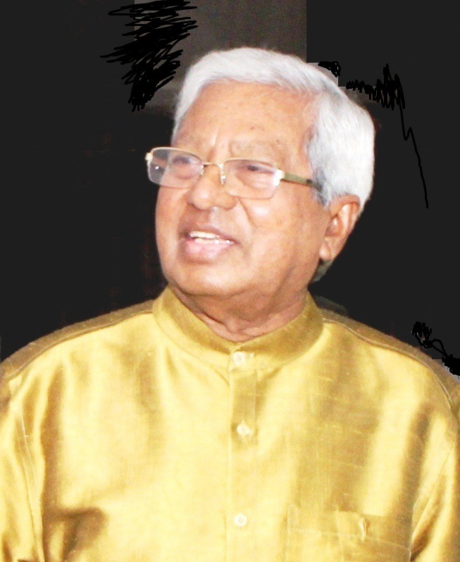 Photograph of Sir Fazle Hasan Abed, 2016